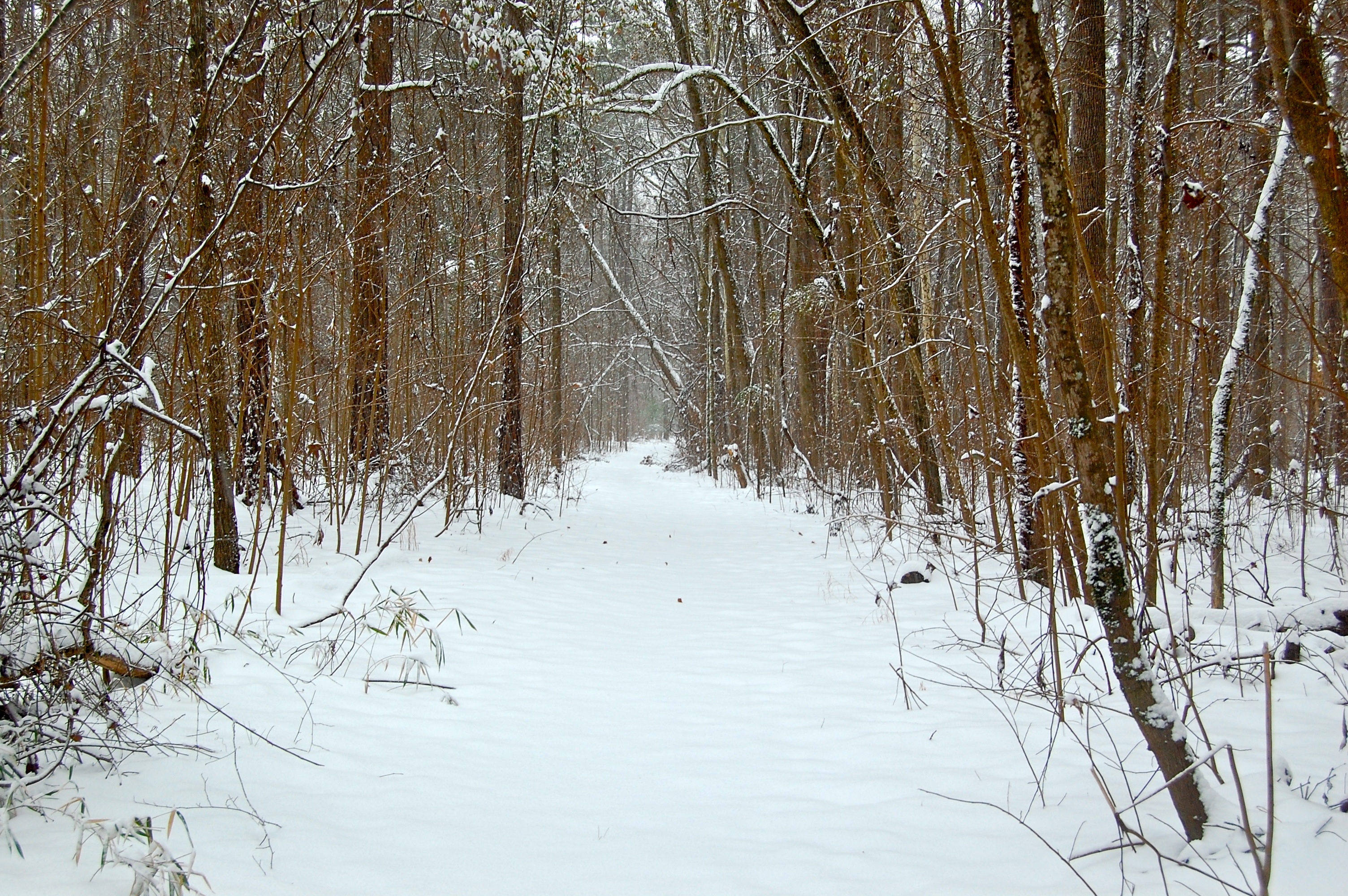 Midlands Mountain trail during snowstorm 1.10.11